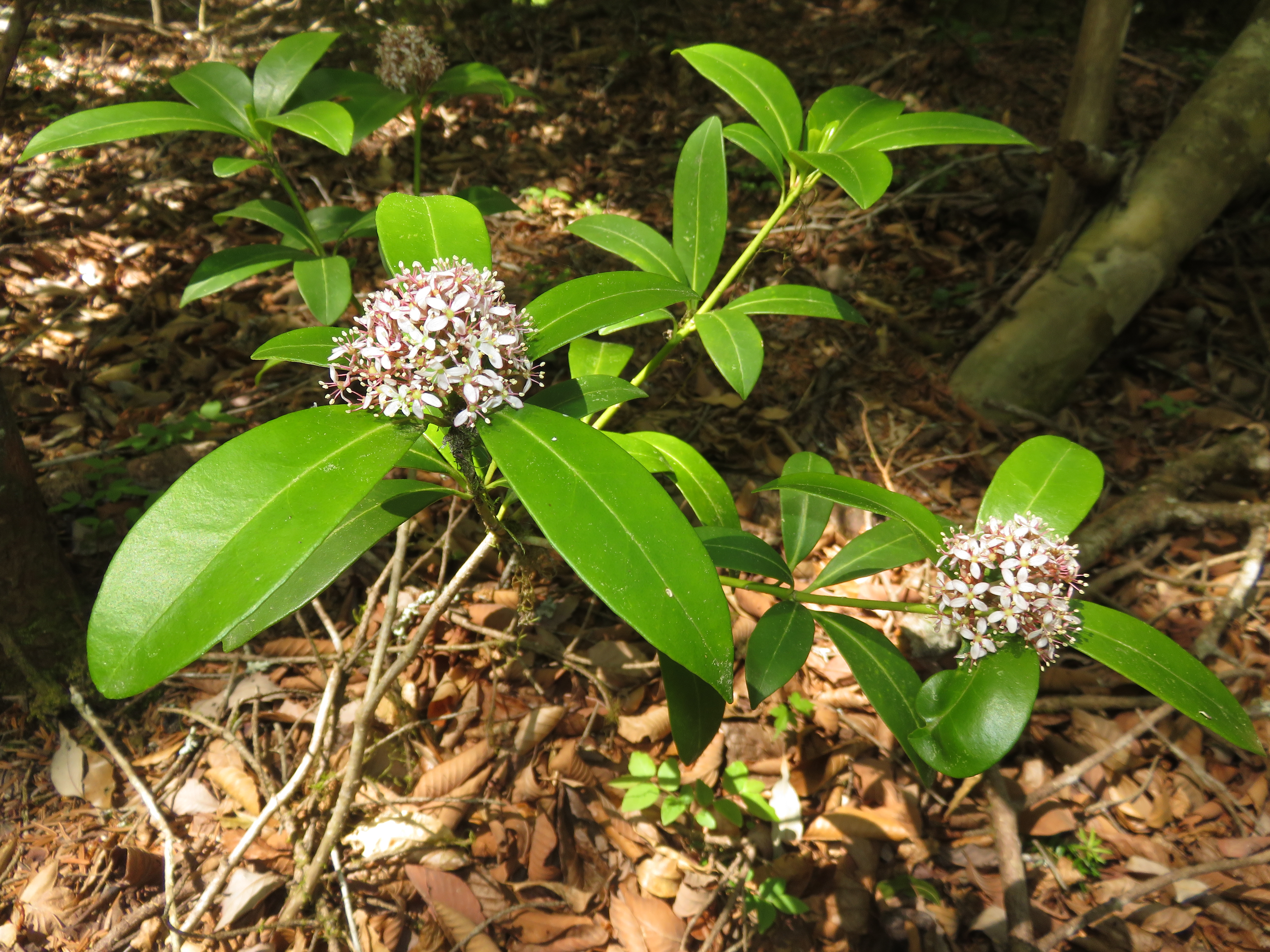 Skimmia japonica, Hama-dori area, Fukushima pref., Japan